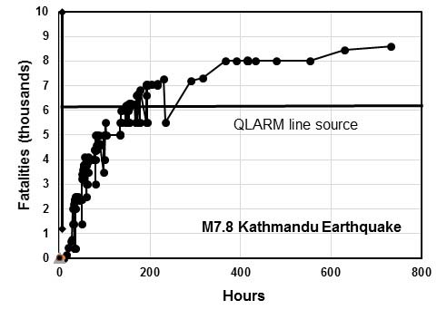 Figure 3: Fatality reports by the media as a function of time, compared to the QLARM calculation (horizontal line) made after the rupture area of the Kathmandu earthquake had been mapped. Uncertainty extent given by the vertical solid line. The source for news reports is the NINTRAS web site of the Swiss Seismological Service. All reports, including lower values exceeded by others, are given.